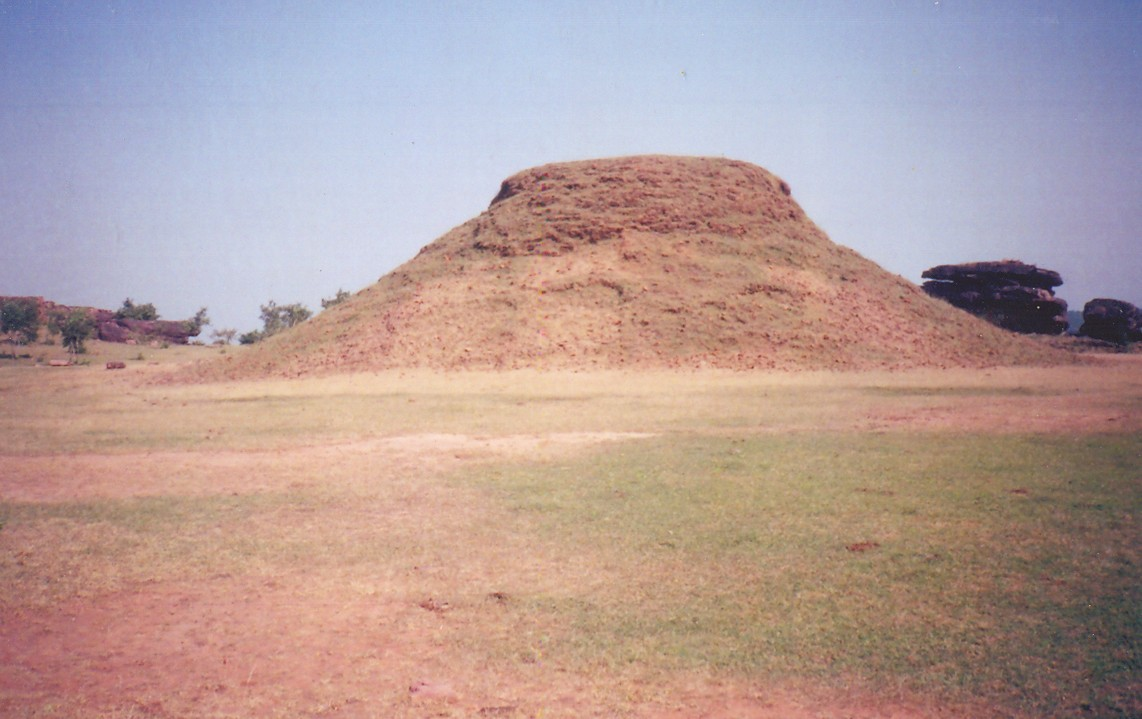 Self created image of Deorkothar stupa